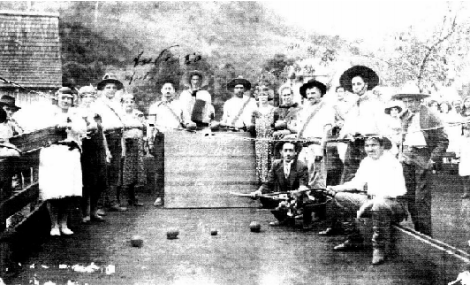 Match of bocha at 1938 in Atlantico Clube.